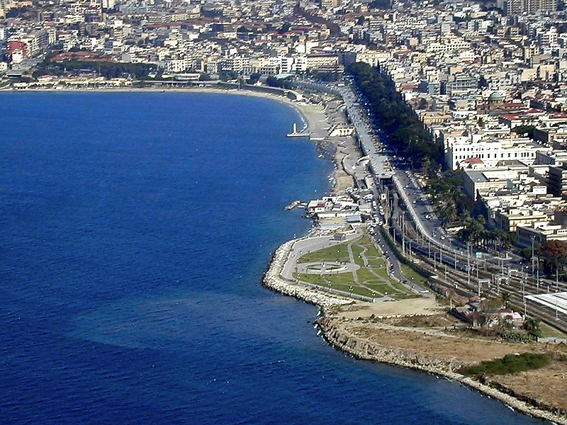 Reggio Calabria, seaside view